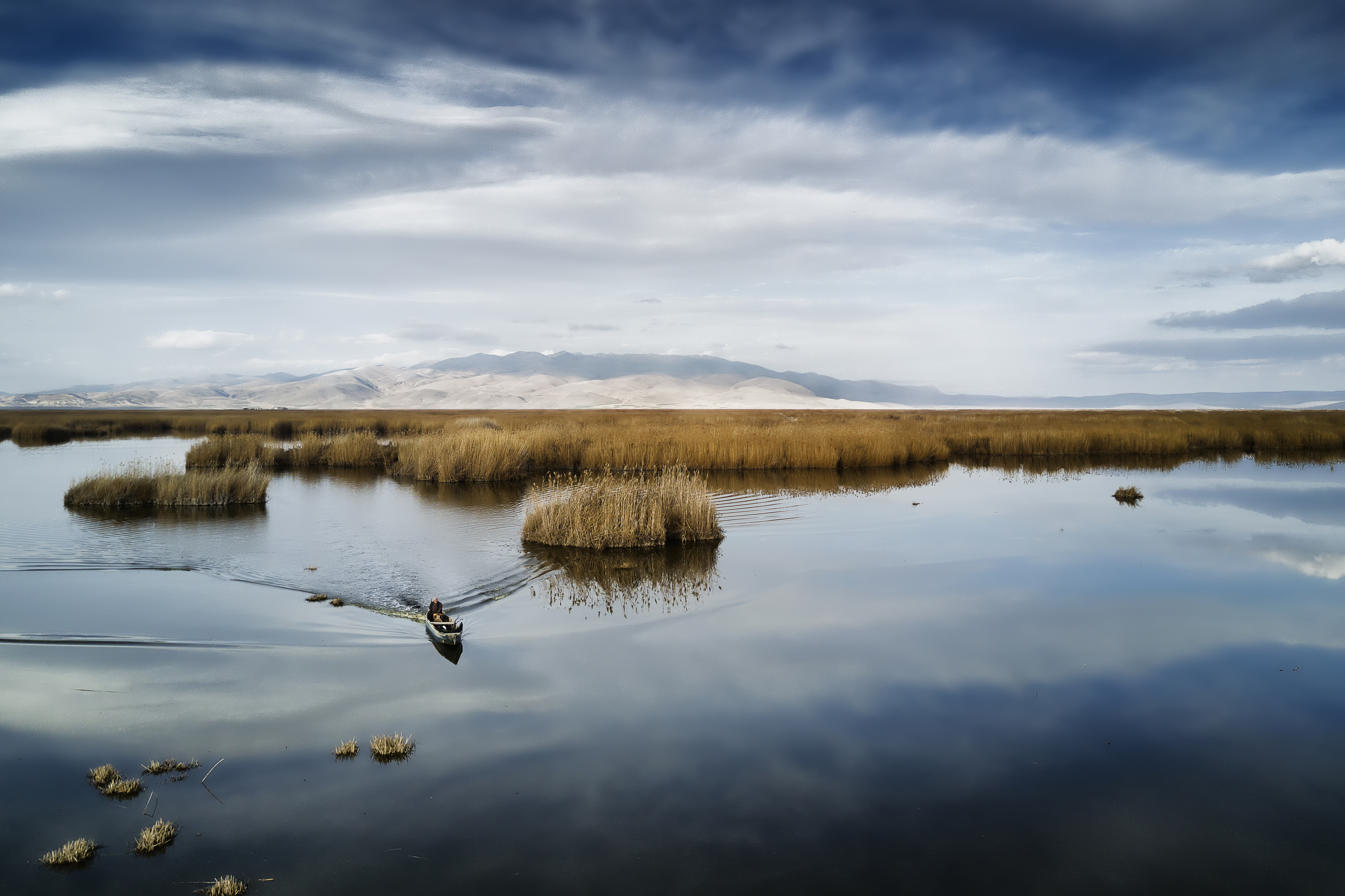 Eber lake was used to known as 11th largest lake of Turkey based on middle of Turkey. Lake is rich with its flora as well as bird variation.